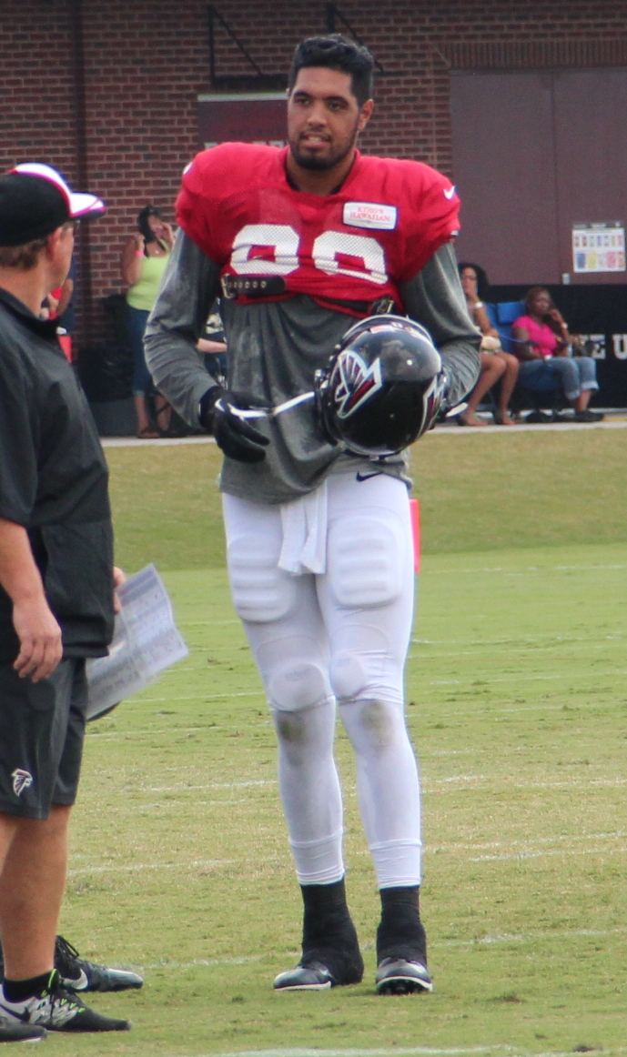 Levine Toilolo in 2014